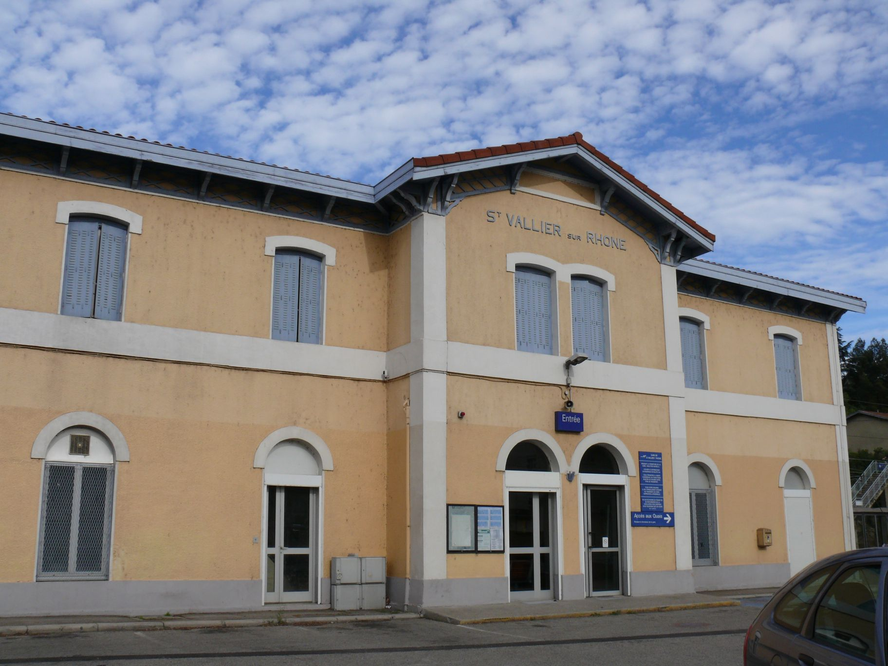 The train station of Saint-Vallier (Drôme, France).